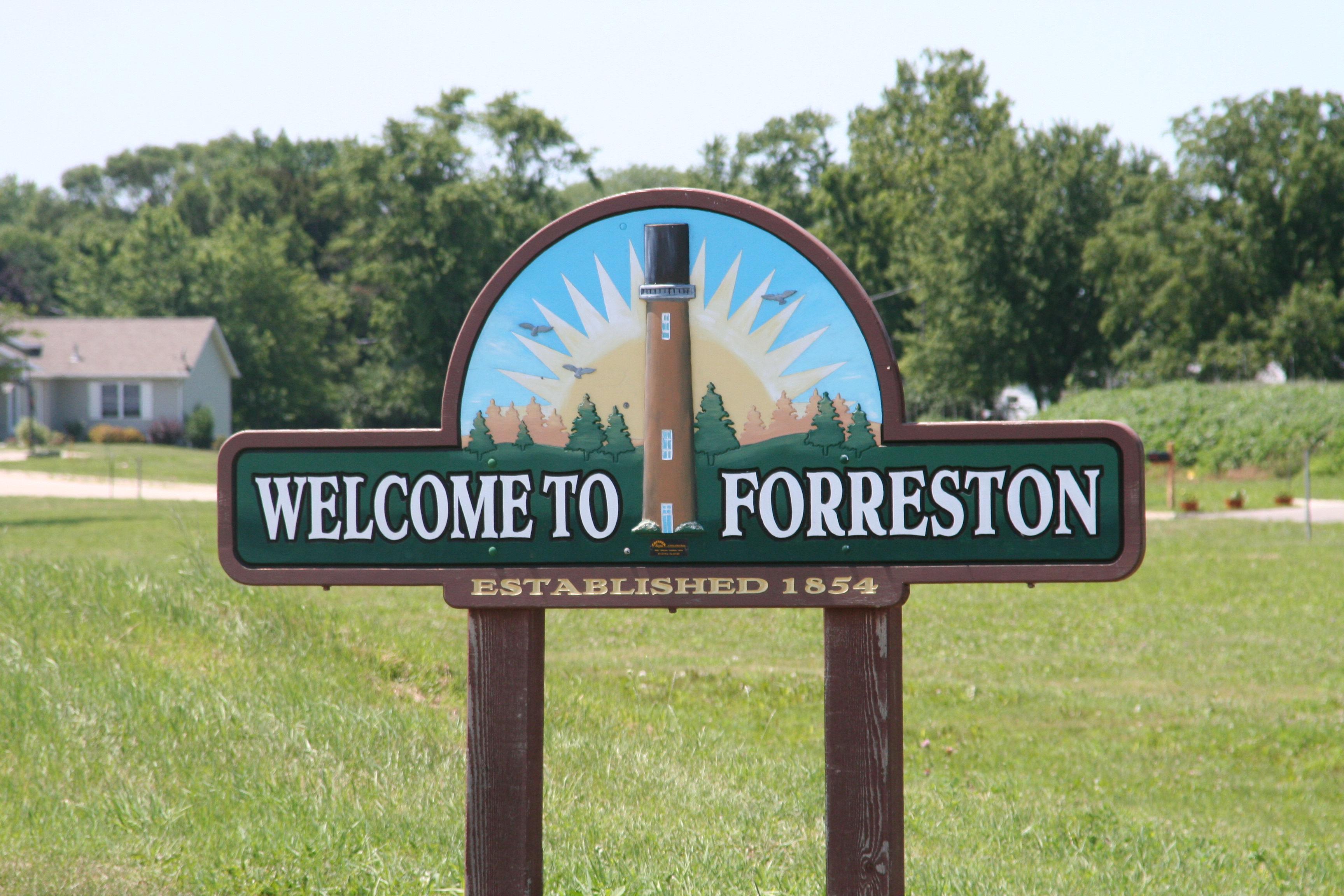 Picture of the sign leading into Forreston, Illinois, USA from the east side of the village.